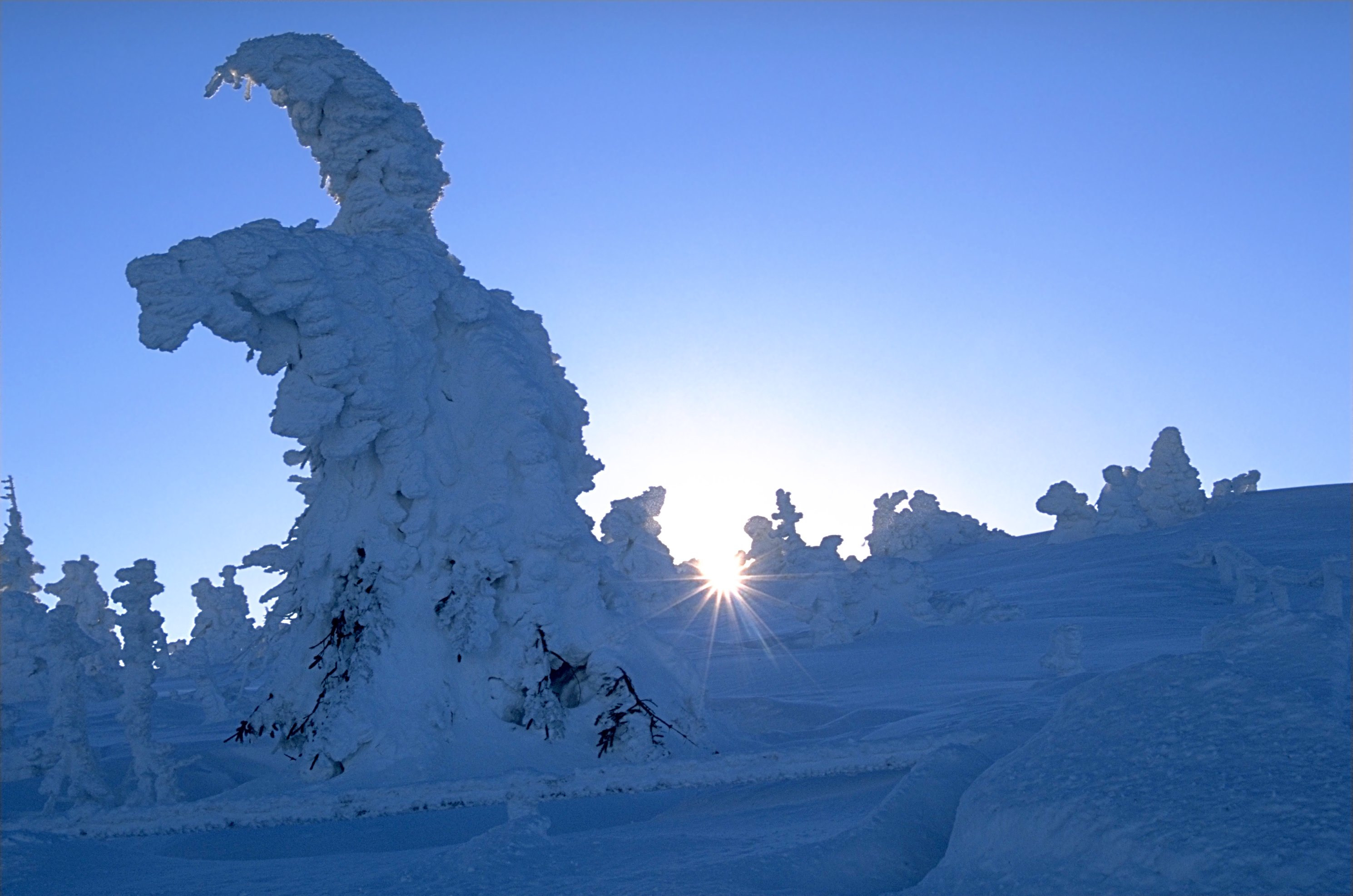 Snowed trees on mount Brocken, Harz, Germany.